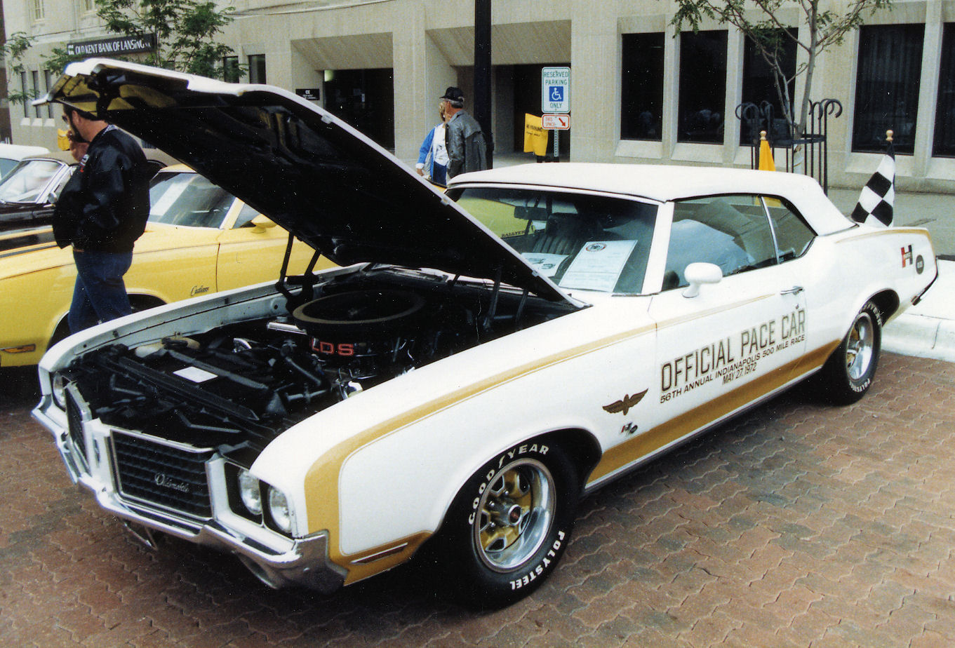 1972 Hurst/Olds convertible. This particular car was the actual back-up pace car for the 1972 Indy 500. Photo taken in 1987 at the Oldsmobile 90th anniversary in Lansing, MI.